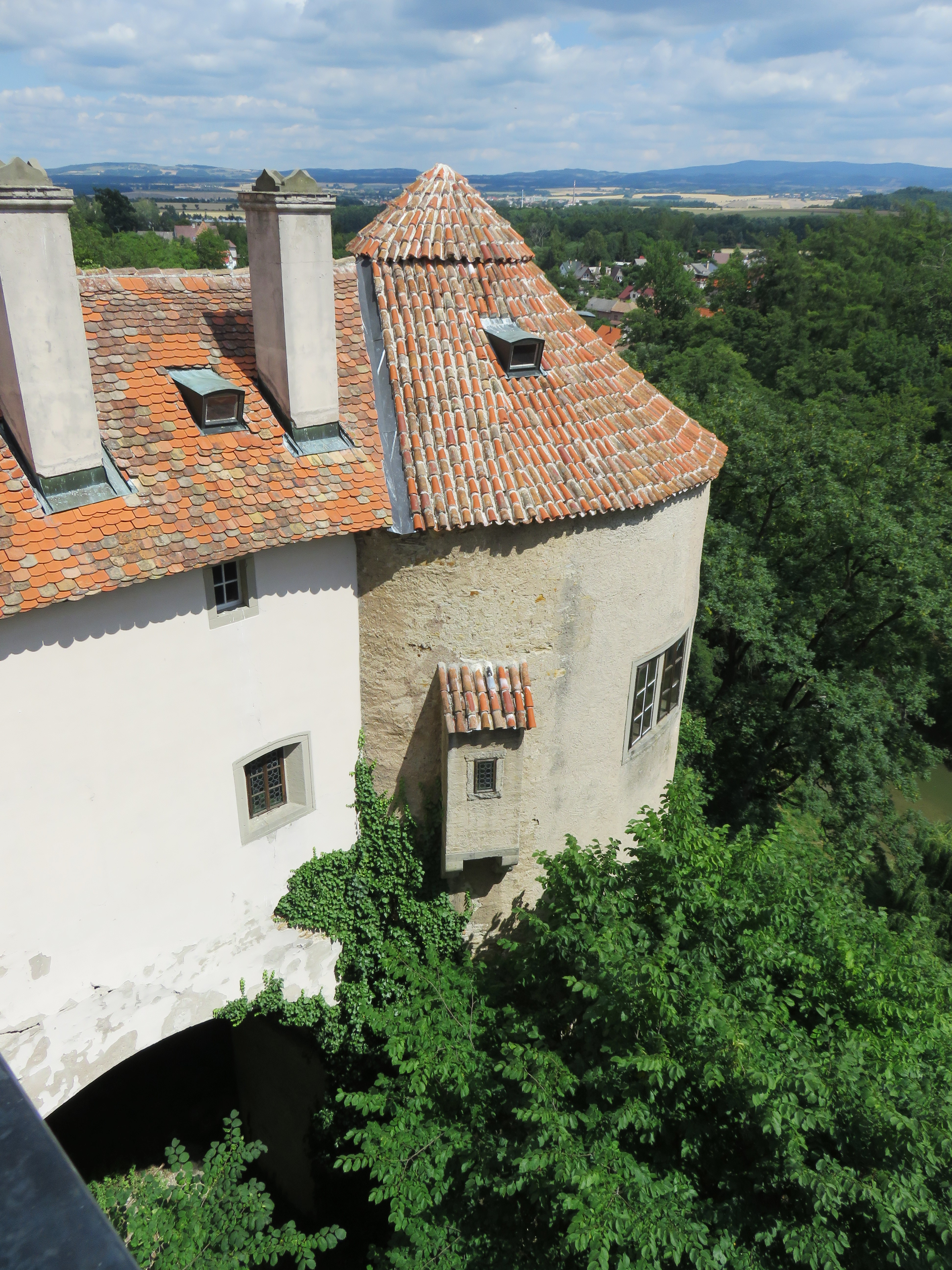 The medieval Well Tower of the Opocno Castle